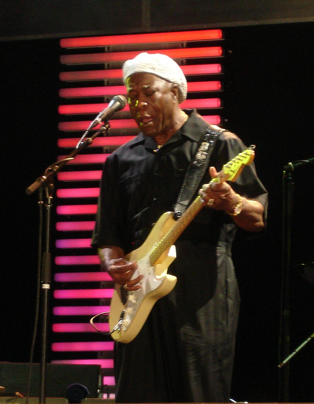 Buddy Guy performing at the Crossroads Guitar Festival